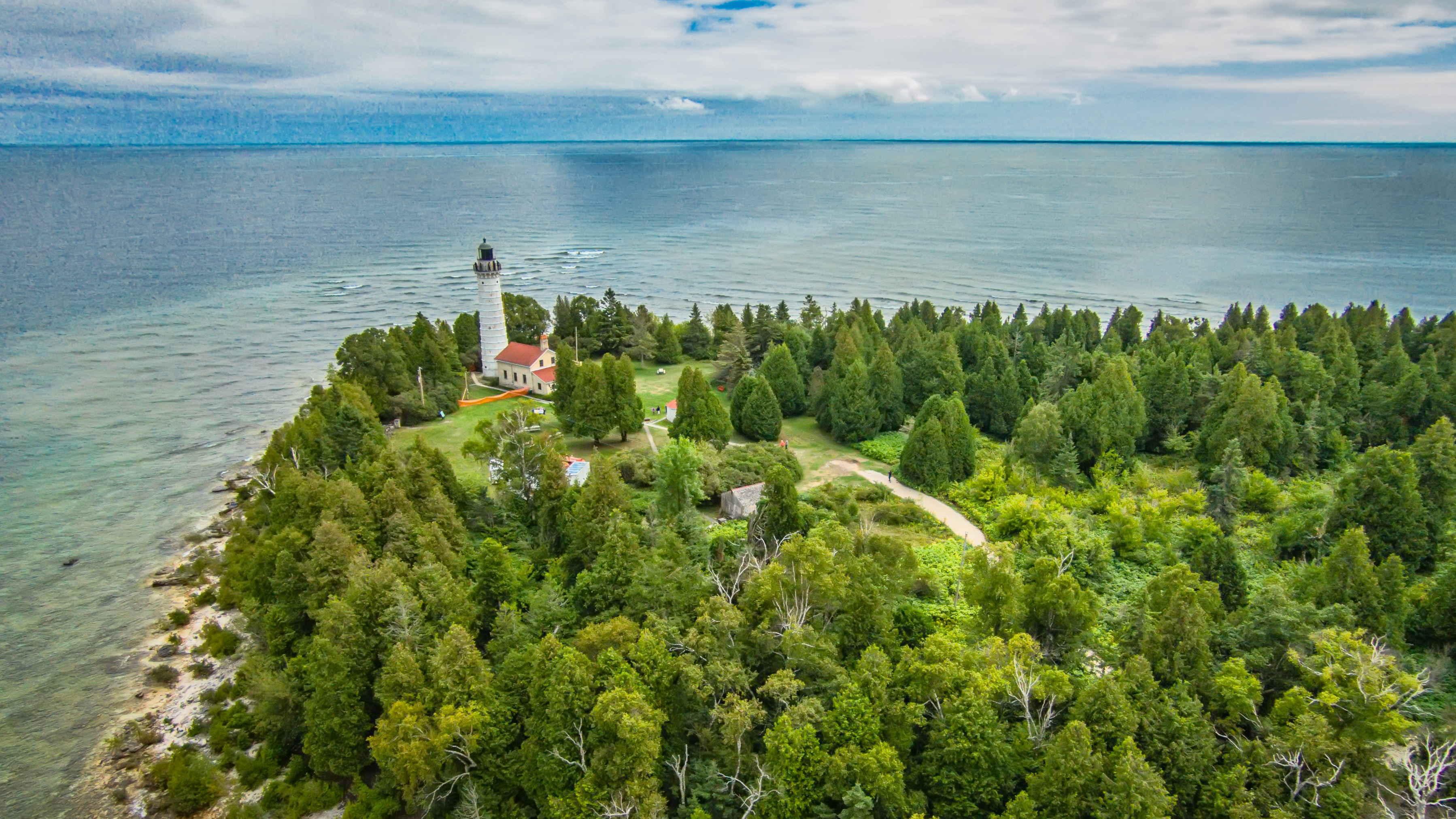 Aerial view of the Cana Island Lighthouse.